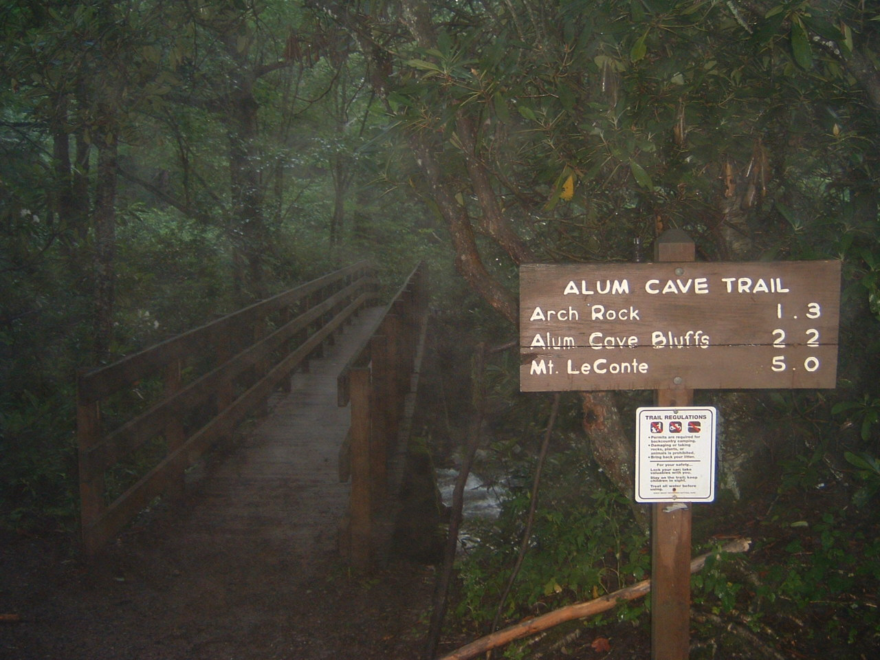 The Alum Cave Bluffs Trailhead, as a wooden bridge crossing Walker Camp Prong.